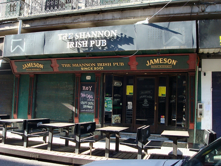 The Shannon Irish Pub on Bartolomé Mitre street of the Ciudad Vieja, Montevideo, Uruguay.